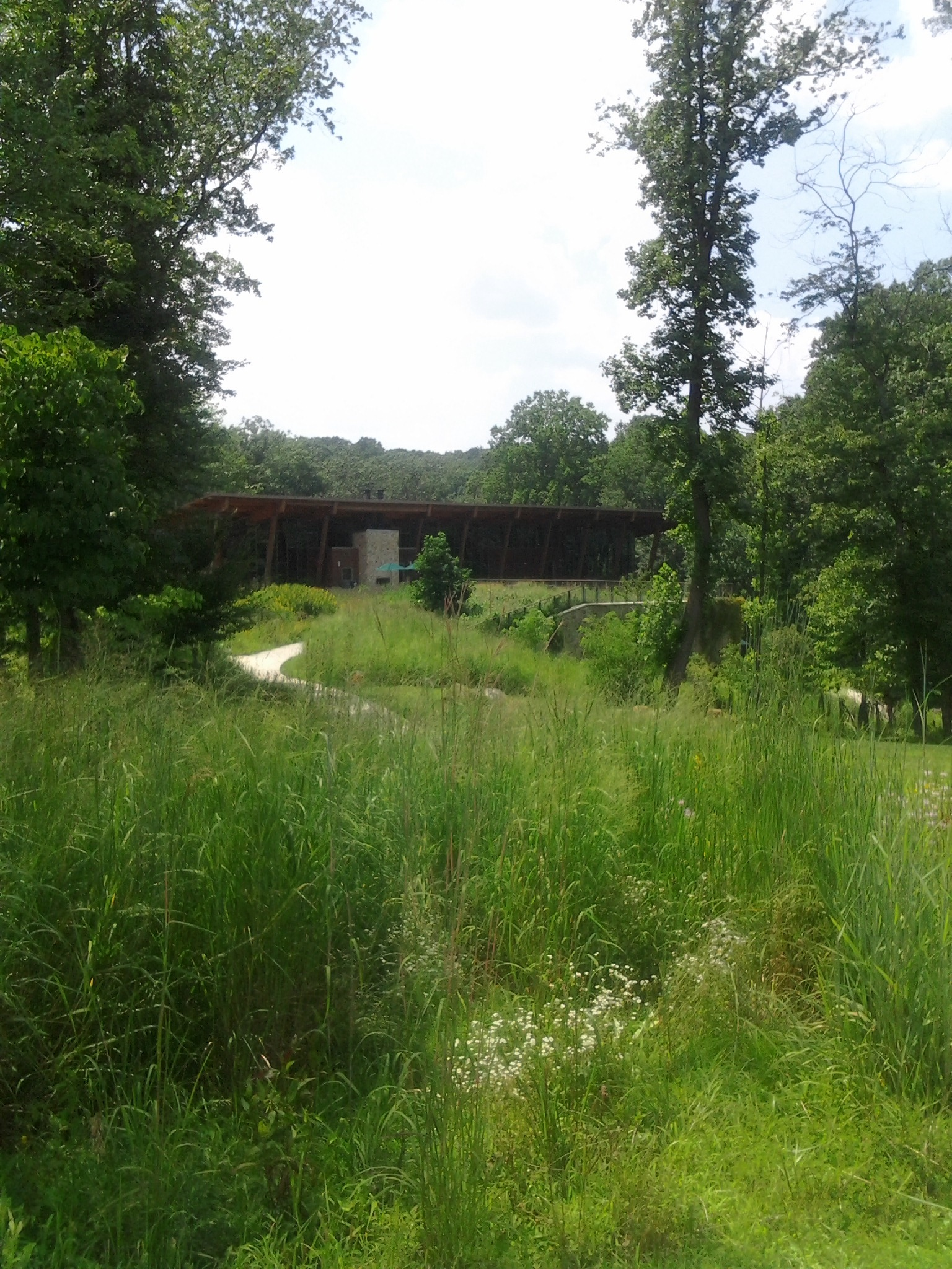 Picture of Robinson Nature center building, taken from near the parking lot